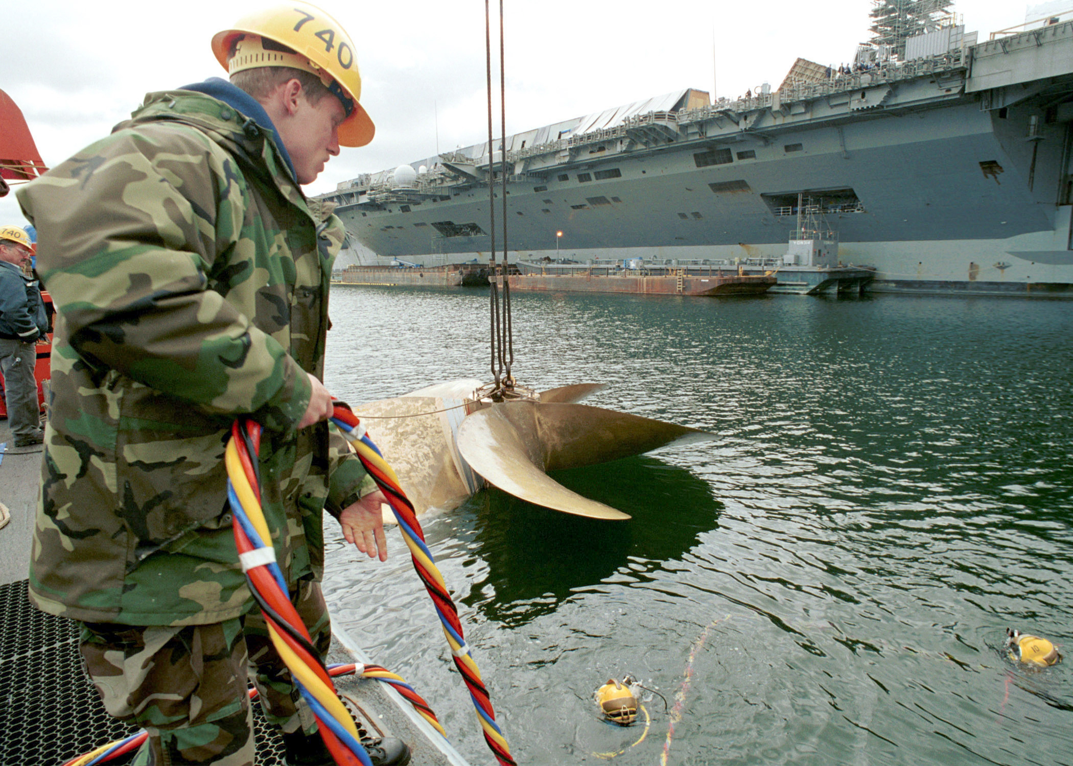 Puget Sound Naval Shipyard, WA (Apr. 19, 2002) -- Sonar Technician (Surface) 2nd Class Chad Wascom from New Orleans, LA, feeds an air line to divers in the water who are attaching lines from a crane to one of the four 64,000 pound screws which move USS Carl Vinson (CVN 70) at speeds in excess of 30 knots on the open sea. Carl Vinson and her crew are conducting a Planned Incremental Availability (PIA) designed to install new technology and extend the operational capability of the ship. When completed, Carl Vinson will return to her homeport at Naval Station Bremerton, WA. U.S. Navy photo by Photographer’s Mate 3rd Class Kerryl Cacho. (RELEASED)